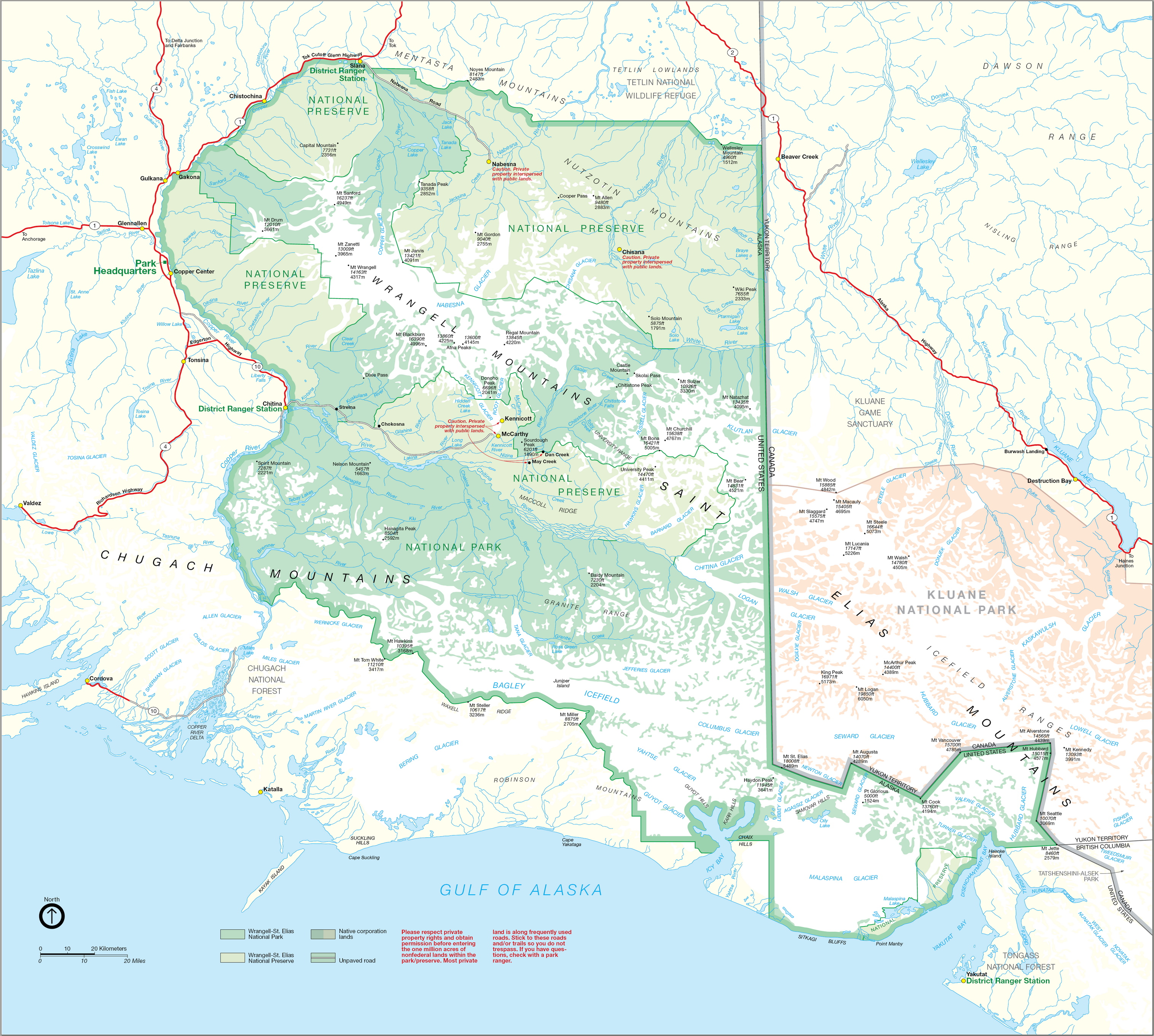 Map of Wrangell-St. Elias National Park